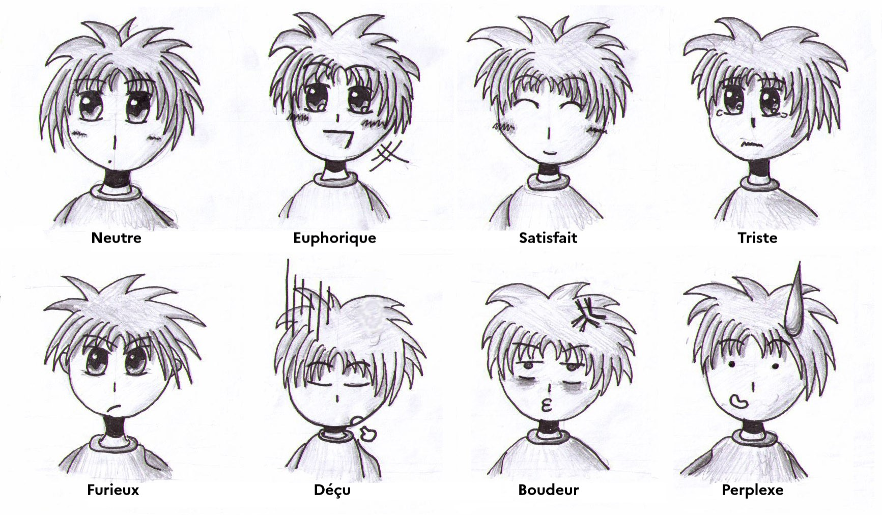 A sheet of simple faces drawn in the manga style, demonstrating a range of common emotions